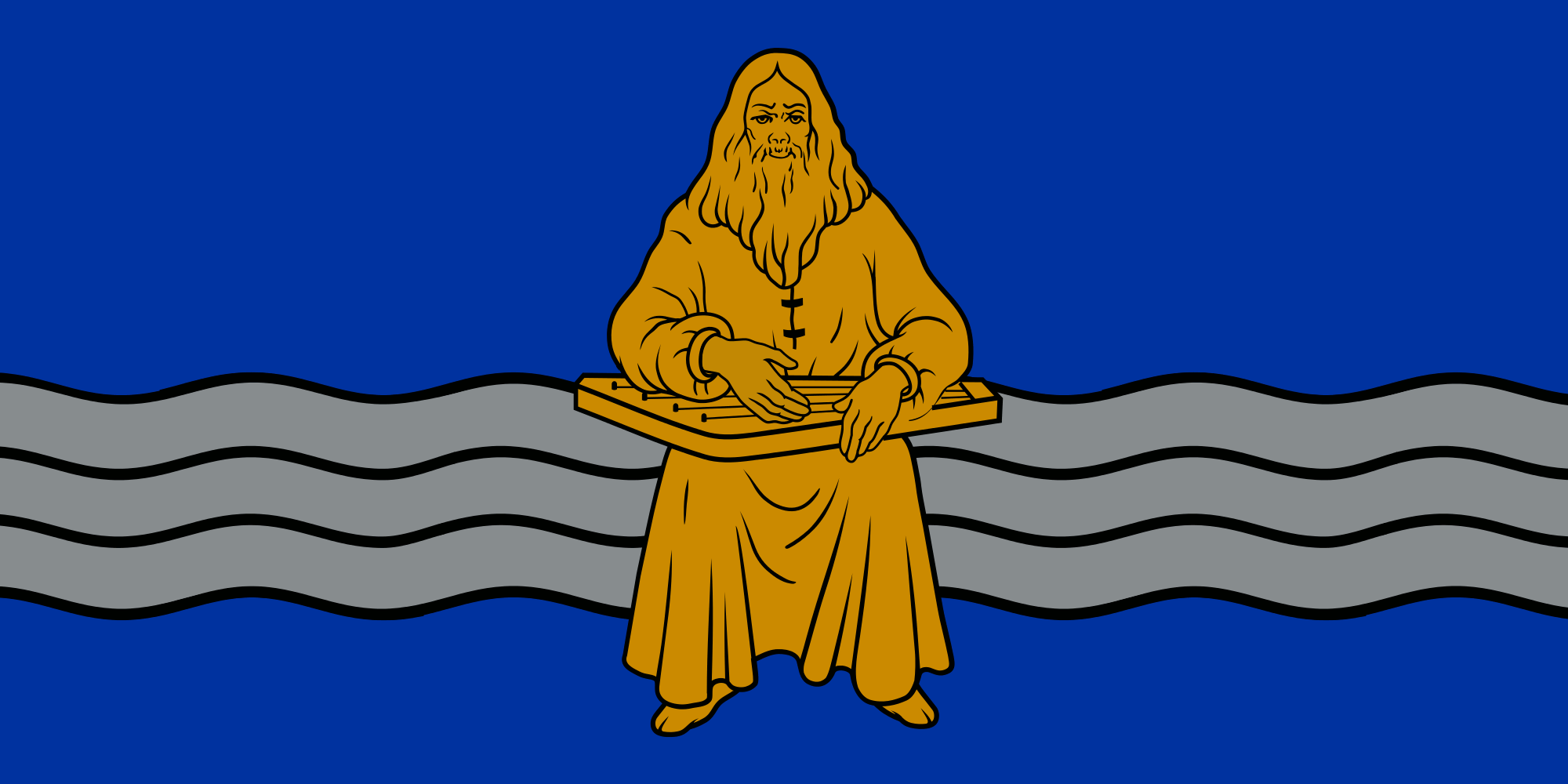 Flag of Burtnieki Municipality, Latvia The council of Burtnieki Municipality adopted the flag 28 January 2015.